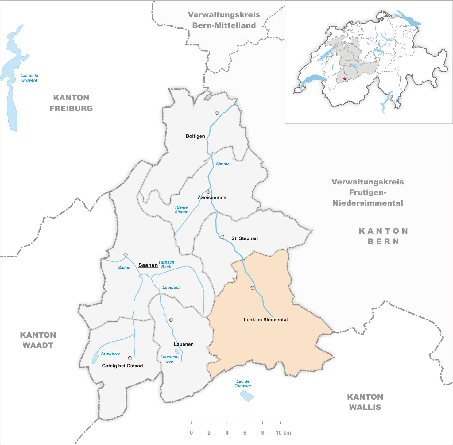 Municipality Lenk